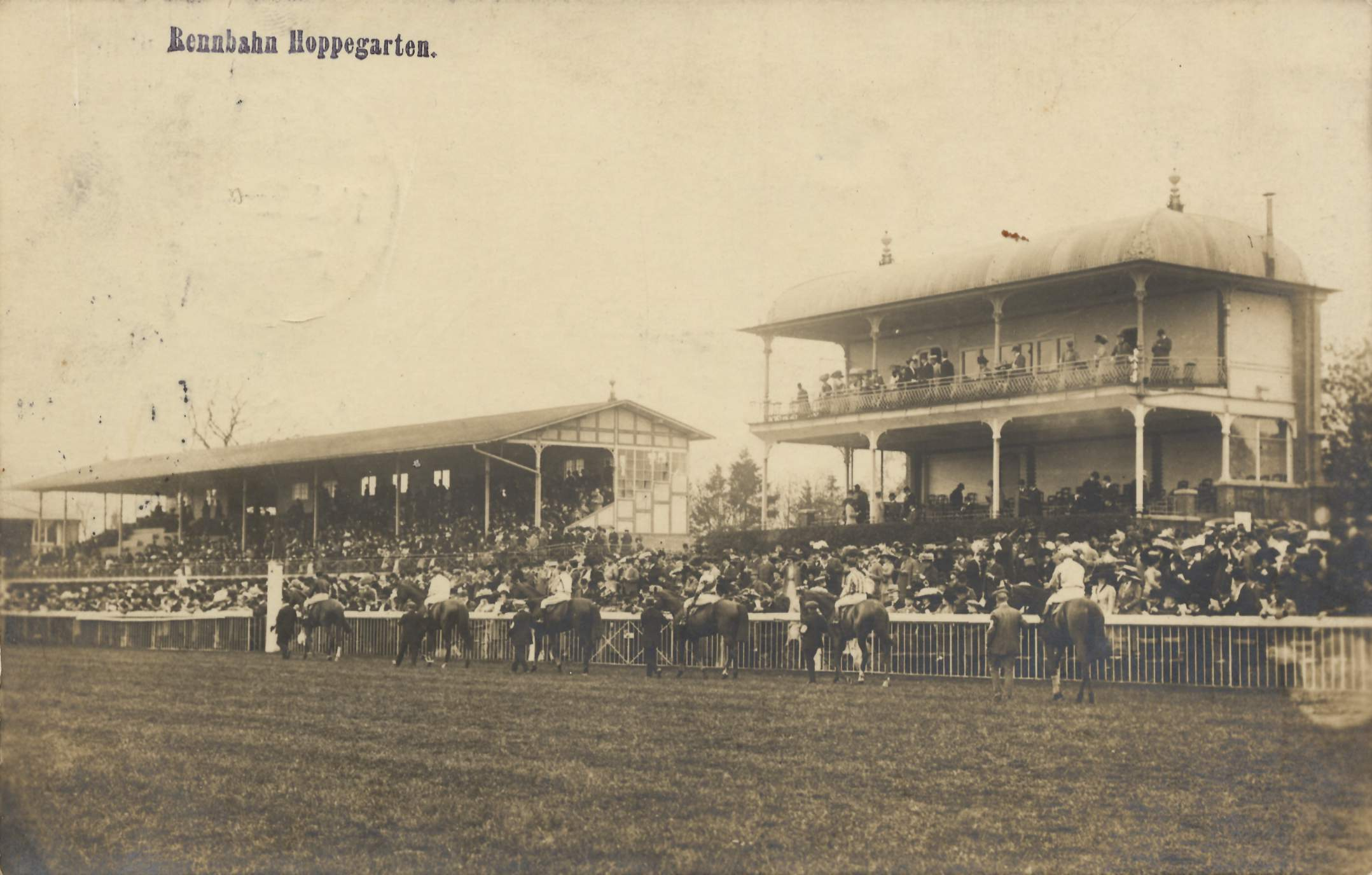 Postcard from 1912 showing the Galopprennbahn Hoppegarten.